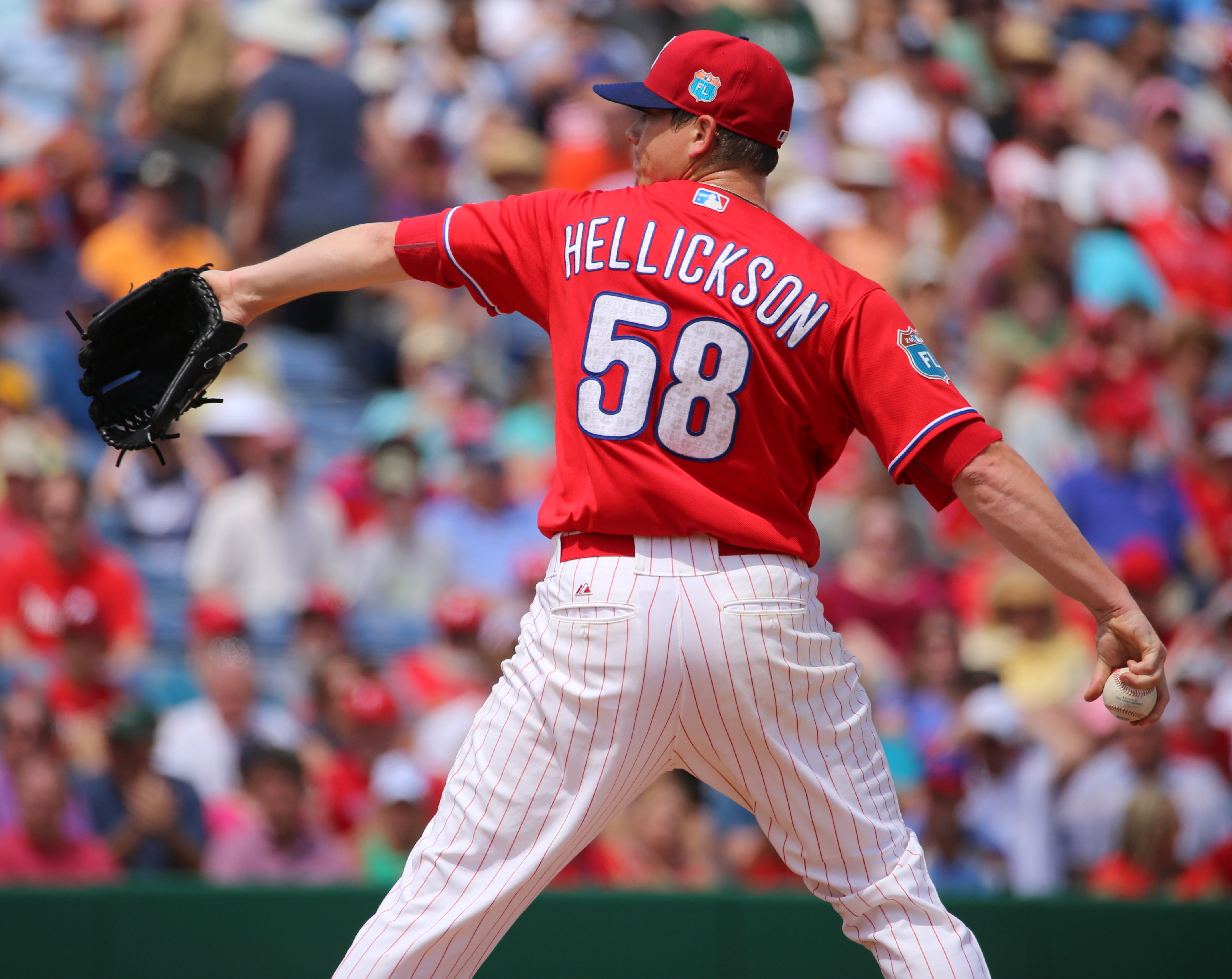 Jeremy Hellickson